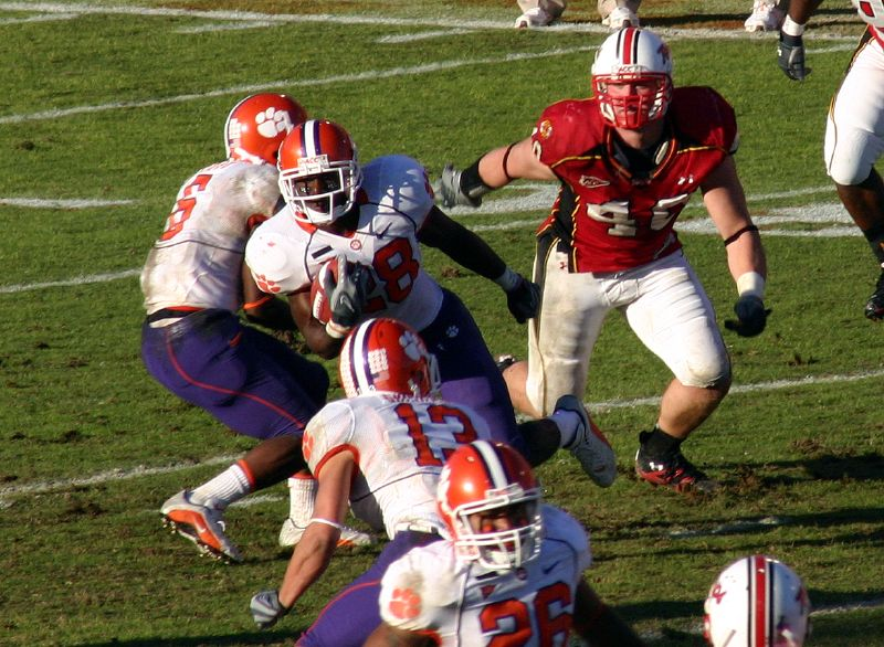 C.J. Spiller finds a hole vs. the Maryland Terrapins in 2007.